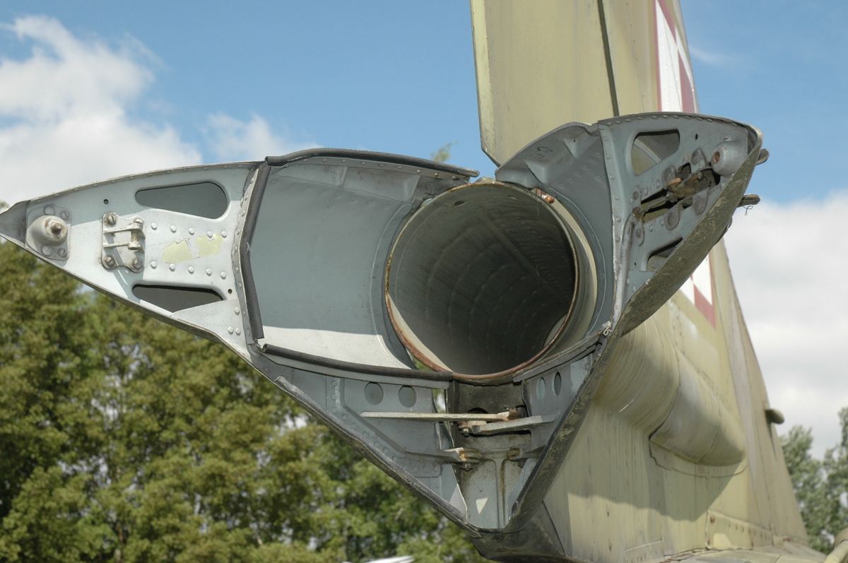 Braking parachute container on MiG-23